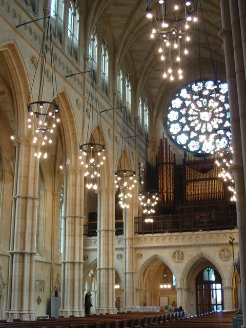 Interior of Arundel cathedral